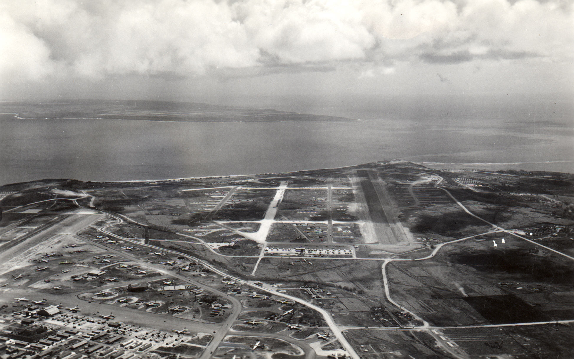 Kobler Field, Saipan, Mariana Islands, 25 April 1945